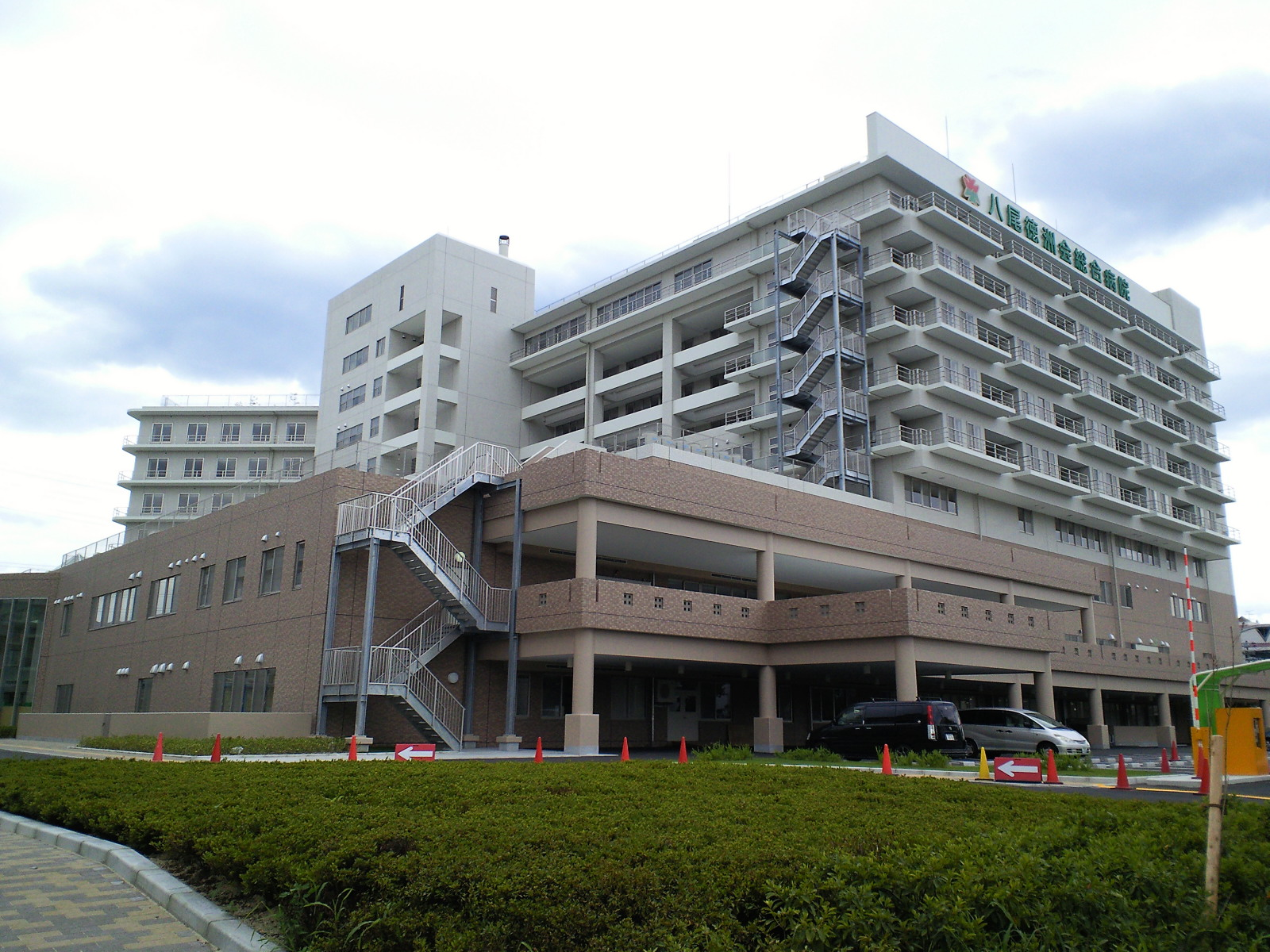 Yao Tokushukai General Hospital, Yao, Osaka